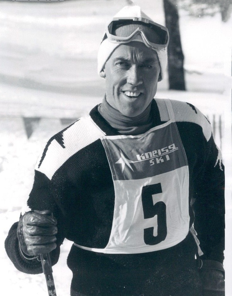 1963 Ernst Hinterseer Mens Alpine Skier Olympic Medalist Press Photo